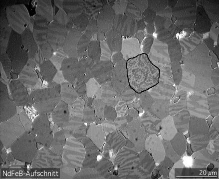 Photomicrograph of NdFeB, the magnetic material used to make neodymium rare earth magnets, under a Kerr-microscope, showing the magnetic domain structure. The metal is composed of microscopic crystal grains. The domains are the light and dark stripes faintly visible within each grain. Due to magnetic anisotropy, the crystal lattice of each grain has an "easy" preferred direction of magnetization, and the domains form as stripes roughly parallel to this direction. The magnetization of light and dark domains is opposite, parallel to their long axis. In most of the grains the domains are parallel to the surface, but in the outlined grain the "easy" direction of magnetization is almost vertical, so only the ends of the domains are visible. ).